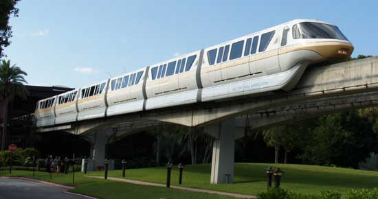 Monorail Peach at Walt Disney World, outside Disney's Polynesian Resort.